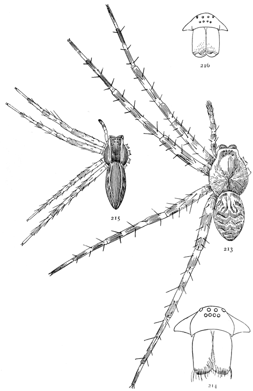 Dolomedes tenebrosus (=Dolomedes scriptus).—213, female enlarged twice. 214, front of head. Figs. 215, 216. Ocyale undata (=Pisaurina mira).—215, female enlarged twice. 216, front of head.